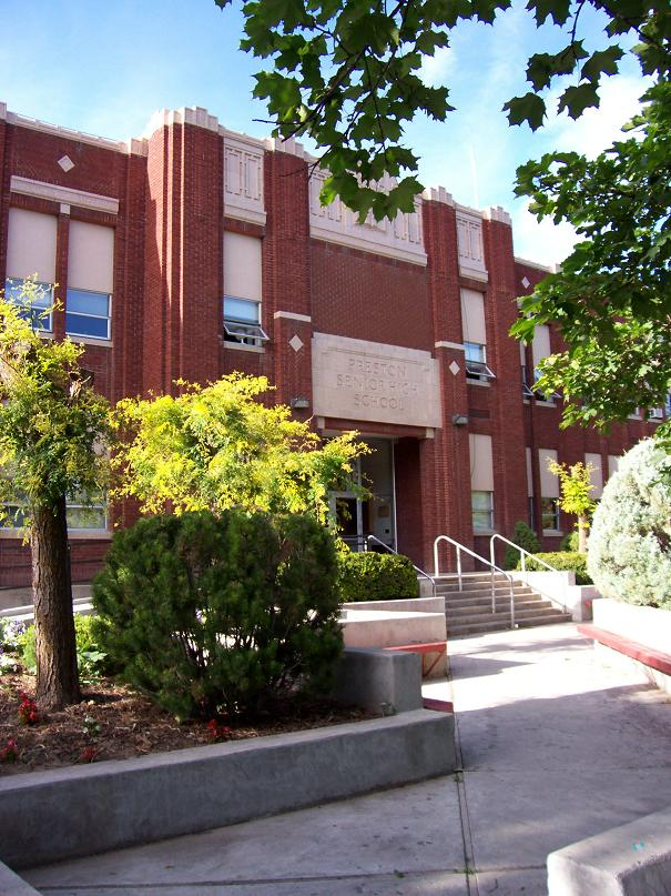 Preston High School, July 7, 2006.